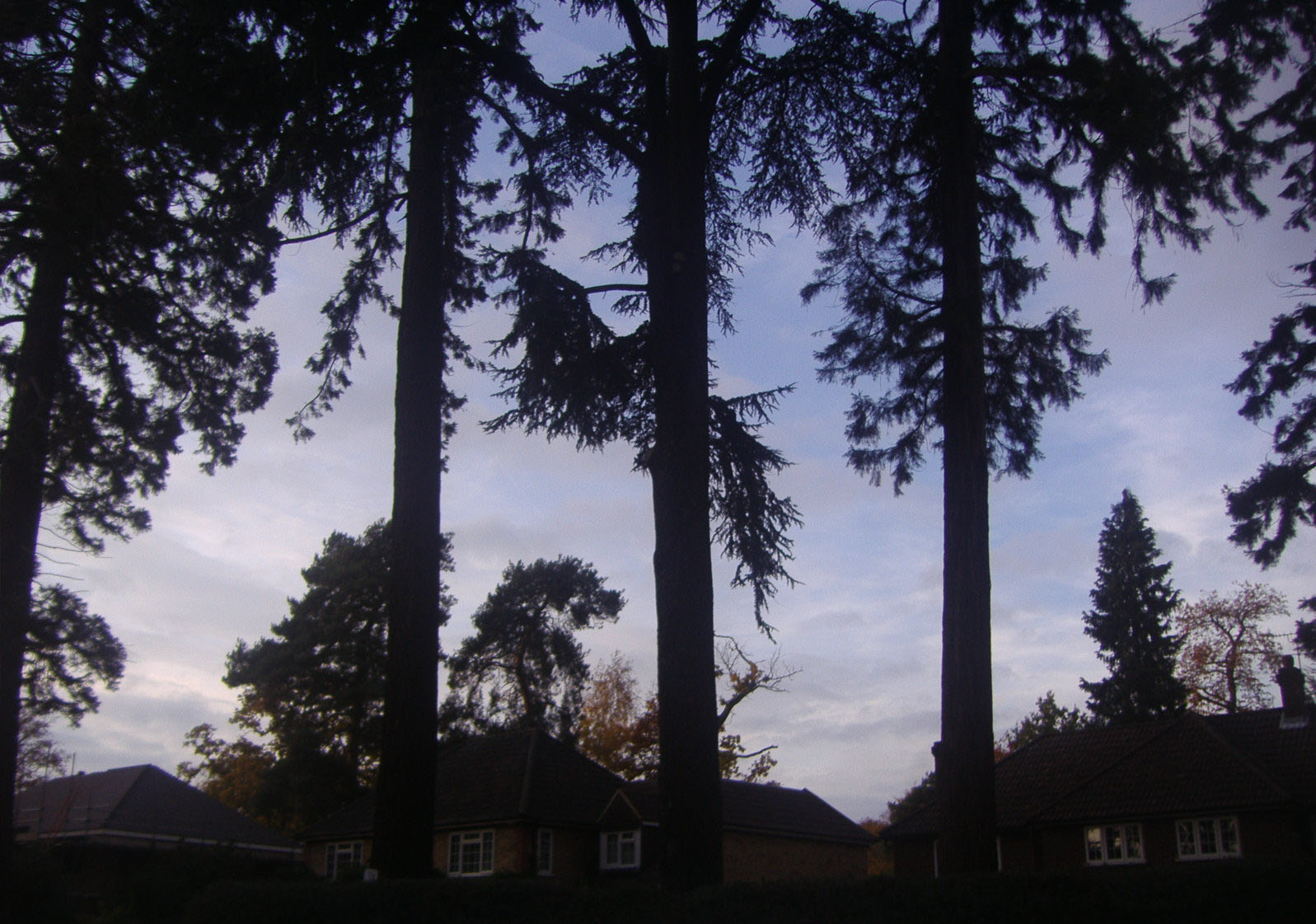 Conifer trees on Parvis Road, West Byfleet